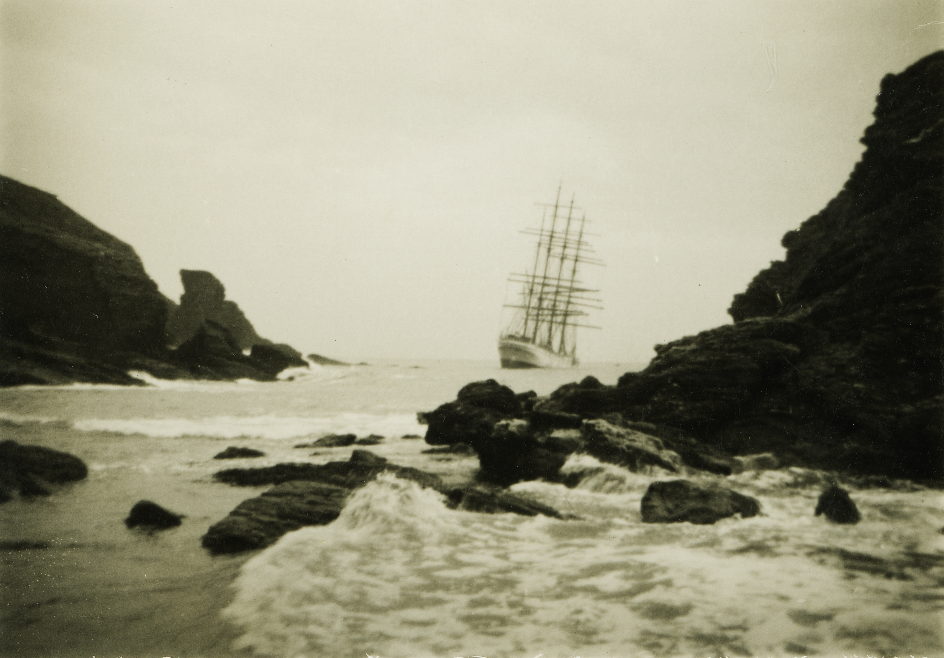 "Herzogin Cecilie" on the rocks, Sour Cove, Devon, England, 1935: Elevated view of four masted barque on rocks -- Wreck of "Herzogin Cecilie" off Bolt Head, Sth Devon, April 23 1936: View from land, sailing ship between rock formations near shore.